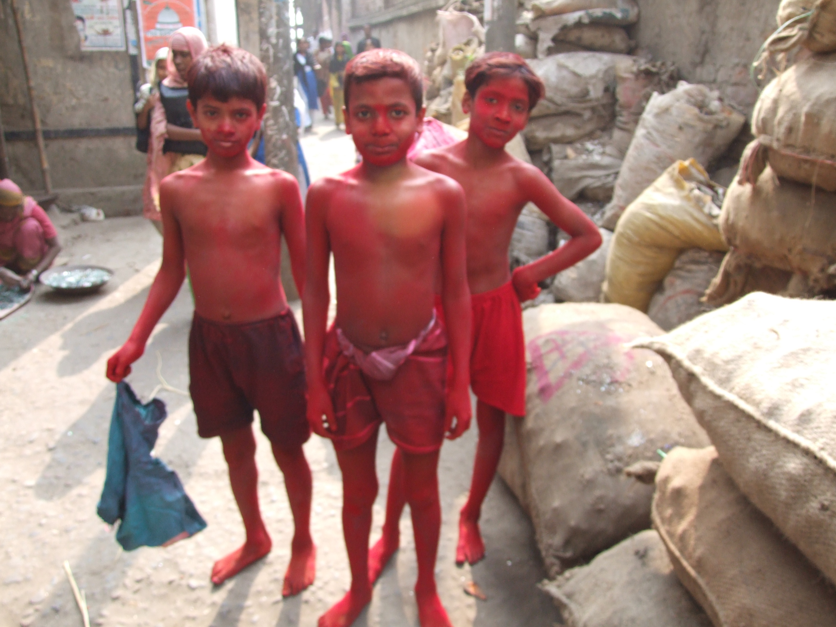 Boys going for a bath after working in a sindur factory. Found them behind Mitfordh Hospital in Old Dhaka.